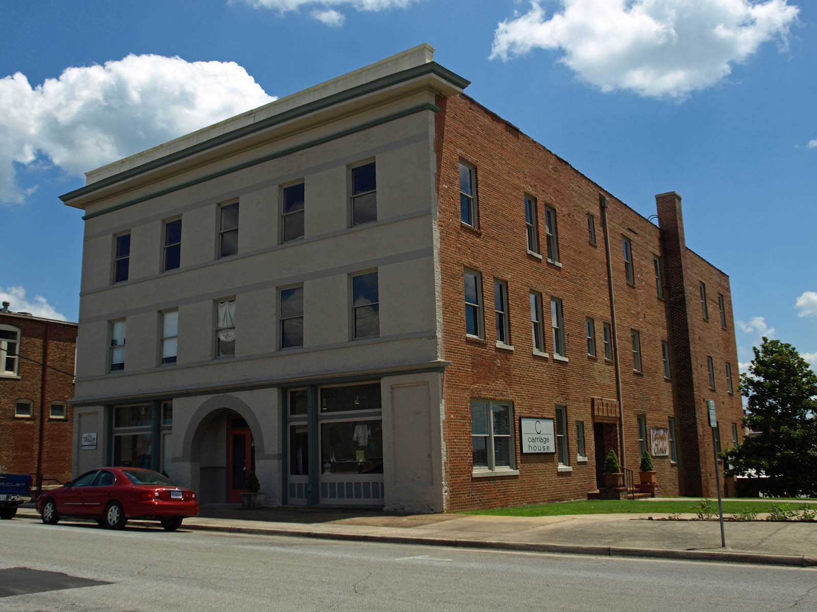 The Cotaco Opera House in Decatur, Alabama, listed on the National Register of Historic Places.